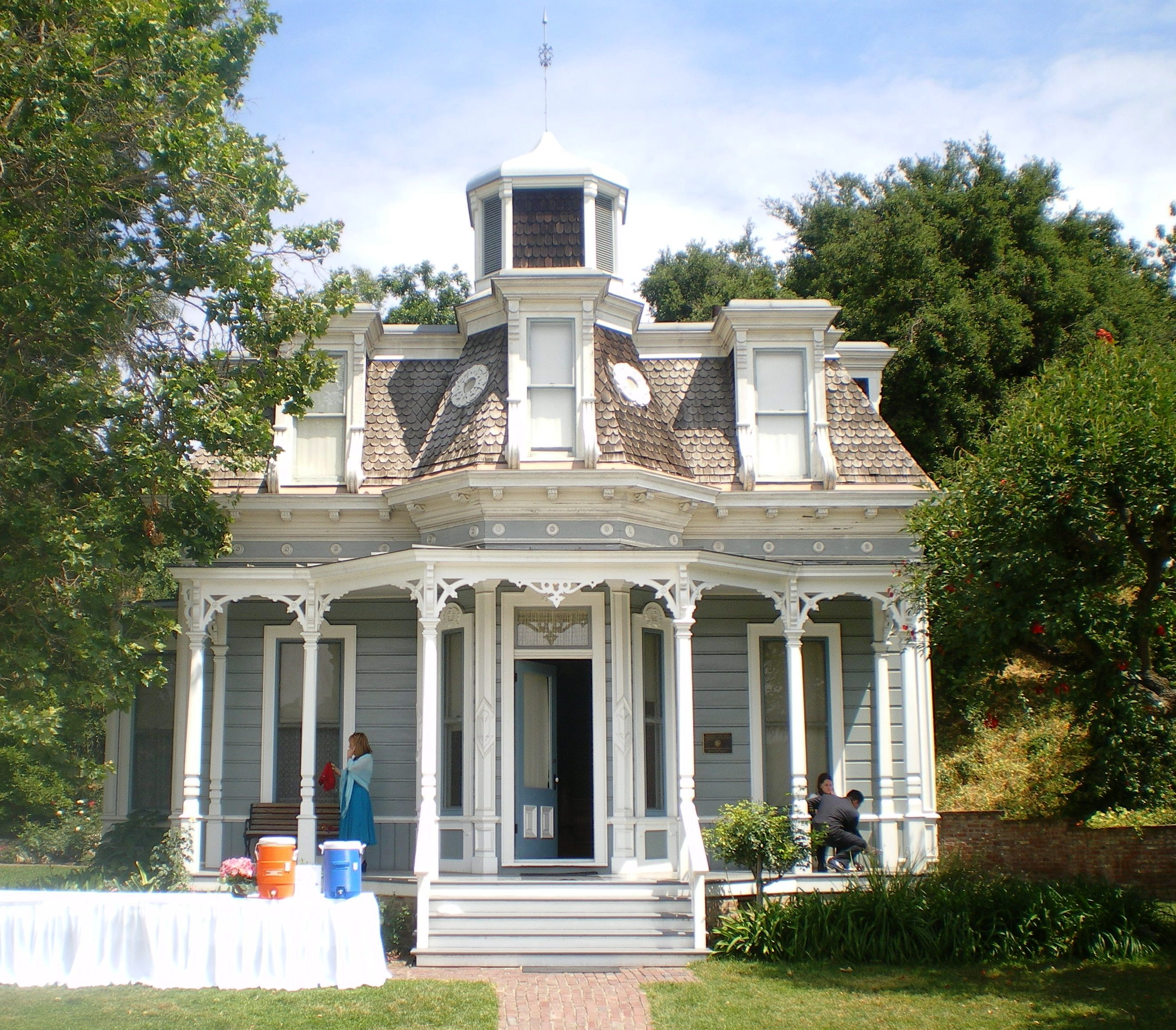 The Valley Knudsen Garden Residence (Shaw House) — Heritage Square, north-central Los Angeles, California. The Victorian Second Empire style house is a Los Angeles Historic-Cultural Monument. Located at the open air Heritage Square Museum (with 8 historic buildings), in the Arroyo Seco at 3800 Homer Street, Los Angeles.